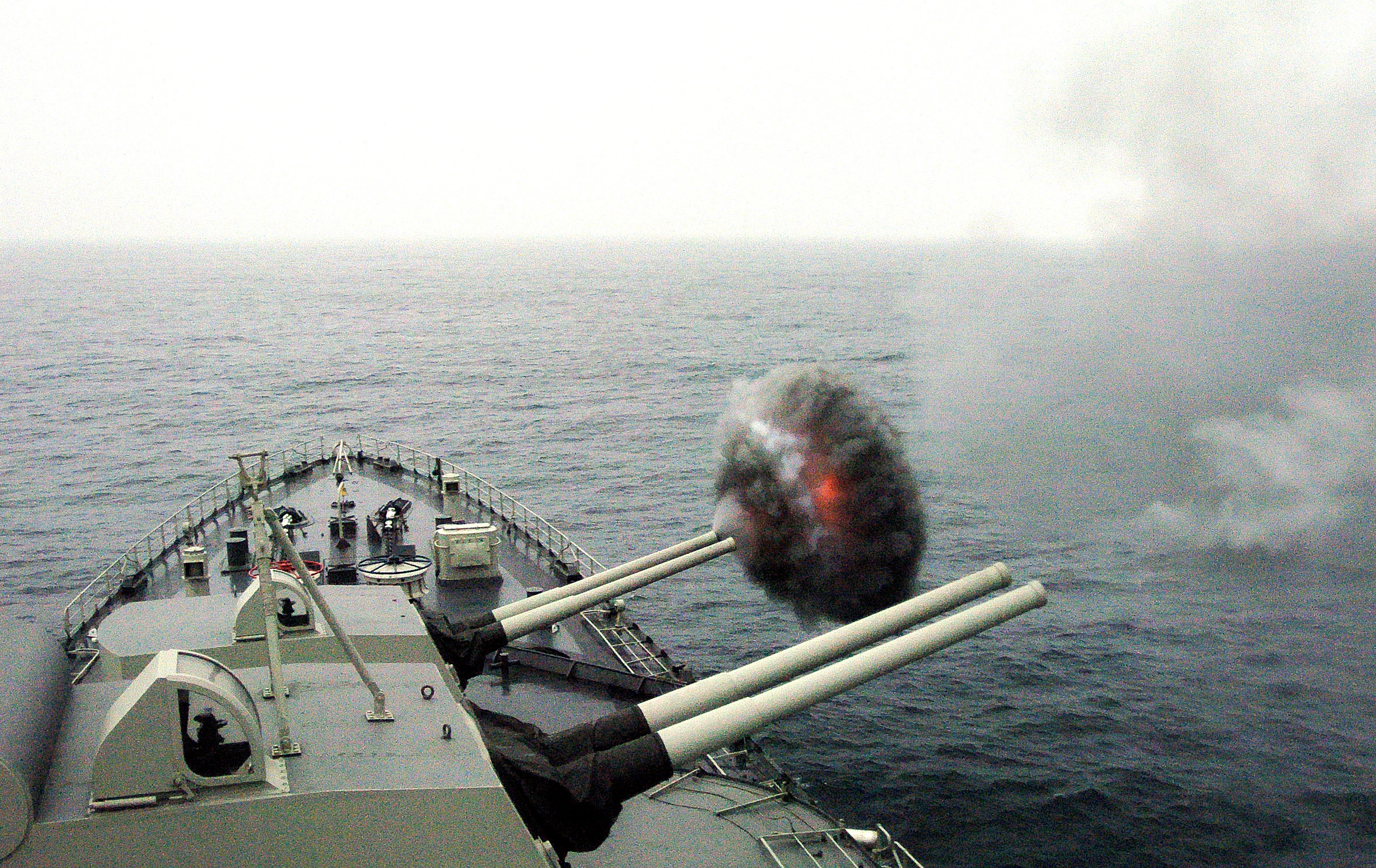 Salinas, Peru (July 3, 2004) - The Peruvian cruiser Almirante Grau (CLM-81) fires one of its 15.2 cm caliber cannons as naval surface fire support during a Latin American amphibious assault exercise supporting UNITAS 45-04. Eleven partner nations from the U.S. and Latin America came together for the largest multilateral exercise in the Southern Hemisphere. Held since 1959, UNITAS aims to unite military forces throughout the Americas with bilateral and multilateral shipboard, amphibious and in-port exercises and operations. UNITAS improves operational readiness and interoperability of U.S. and South American naval, coast guard, and marine forces while promoting friendship, professionalism and understanding among participants. U.S. Navy photo by Chief Journalist Dave Fliesen (RELEASED)